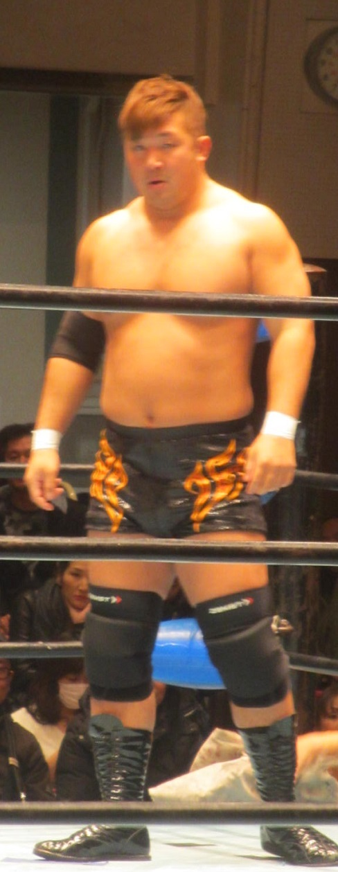 Japanese professional wrestler, Yasufumi Nakanoue. Dec 30 2016, BJW Korakuen Hall.